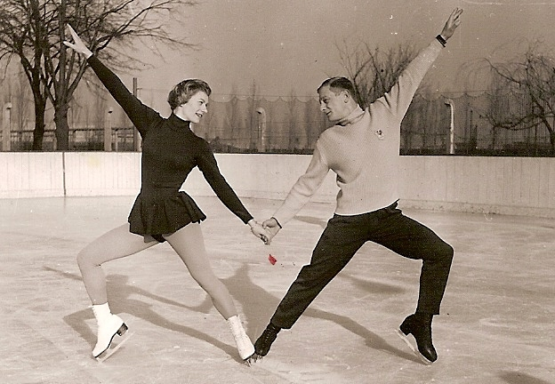 Christiane Guhel (Born: Elien), french ice dancer with unknown partner, assumably Jean Paul Guhel